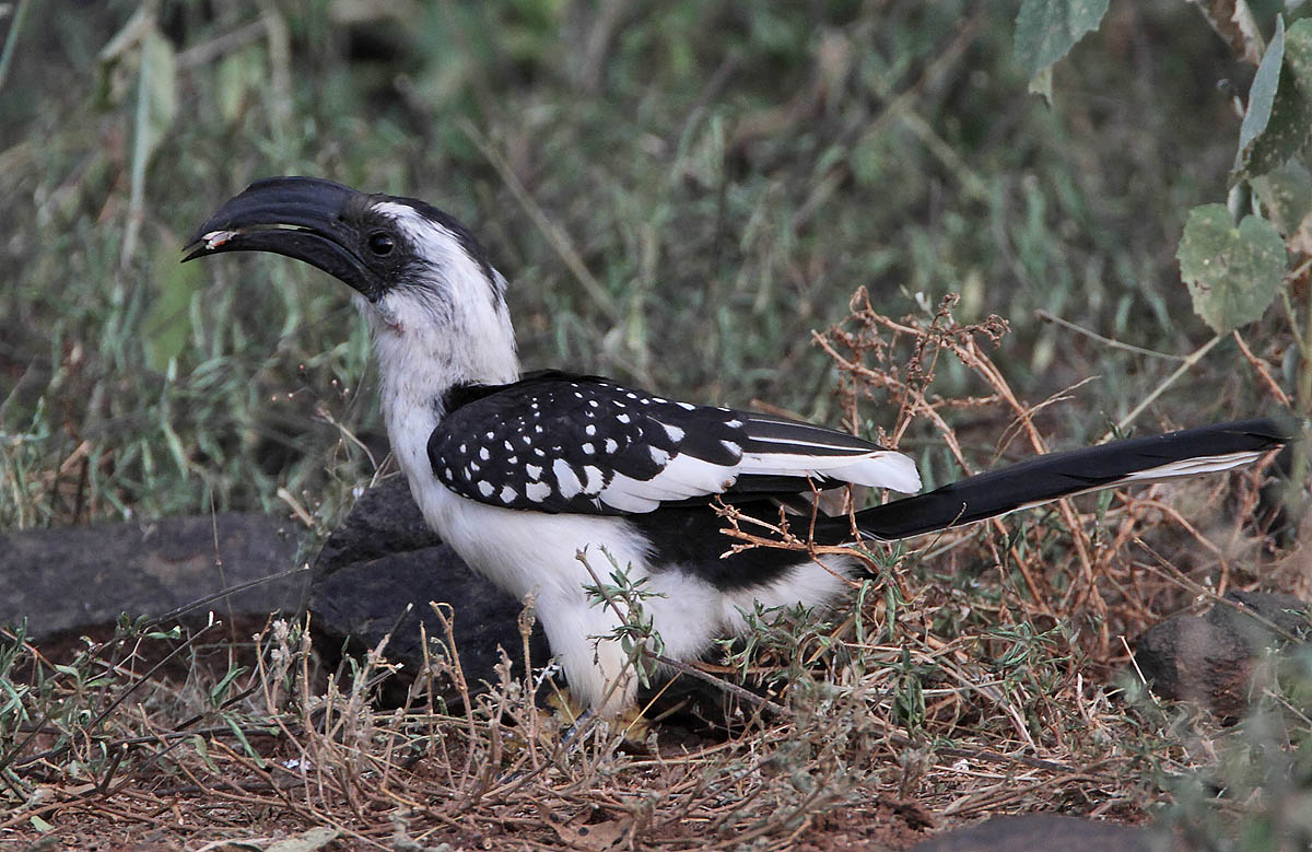 A female Jackson's Hornbill in Kenya.